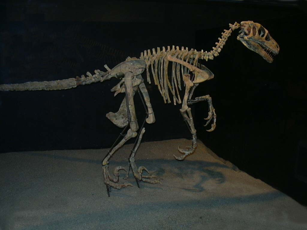 This is a skeleton of Variraptor mechinorum, taken in Dinosoria (Aude, France)